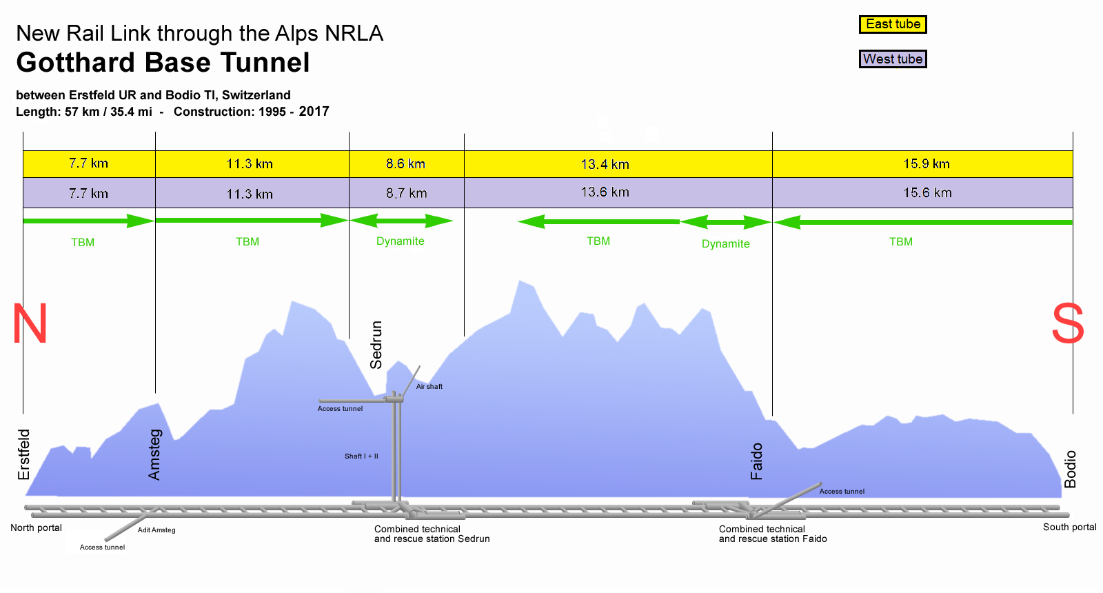 Scheme of the Gotthard Base Tunnel, centerpiece of the New Railway Link through the Alps NRLA aka Alptransit project, a 57 kilometer long double-tube tunnel in the heart of Switzerland. TBM = Tunnel boring machine